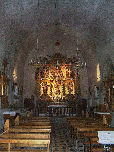 Montbolo : Saint-André church (XIIth century), interior.